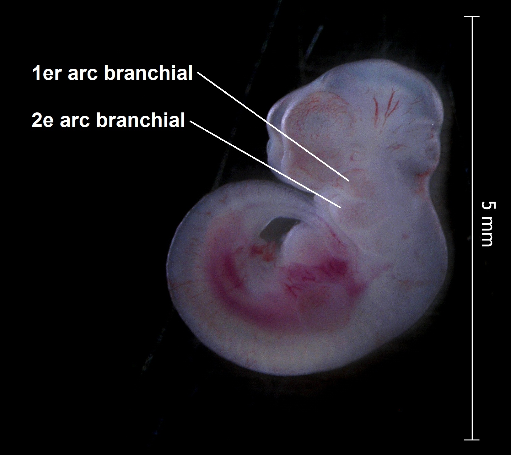 A murine embryo (CD-1), approximately 12.5 days old.